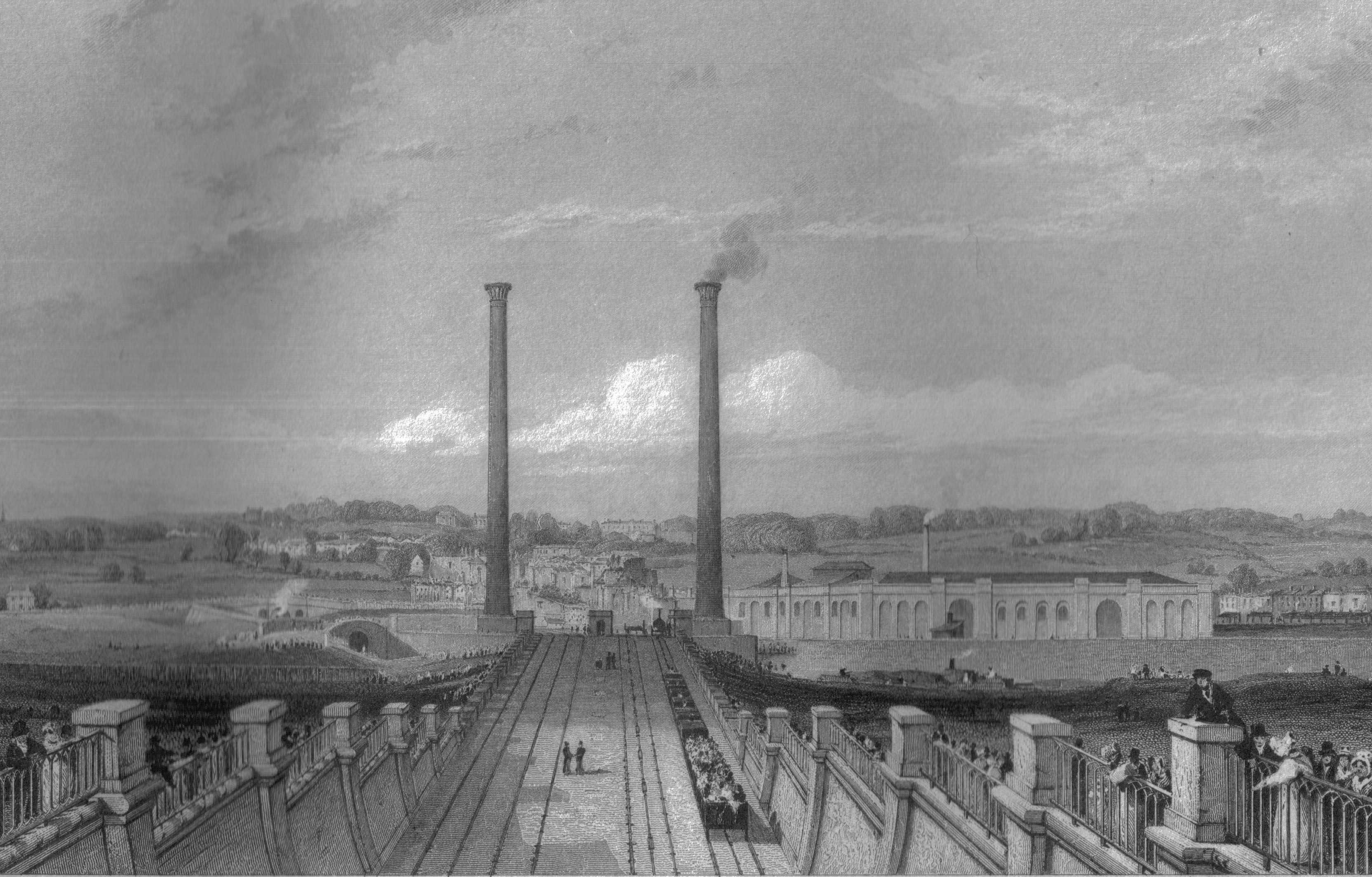 The excavation near Camden Town. This shows Camden Town engine works and stationary engine chimneys, built on the London and Birmingham Railway